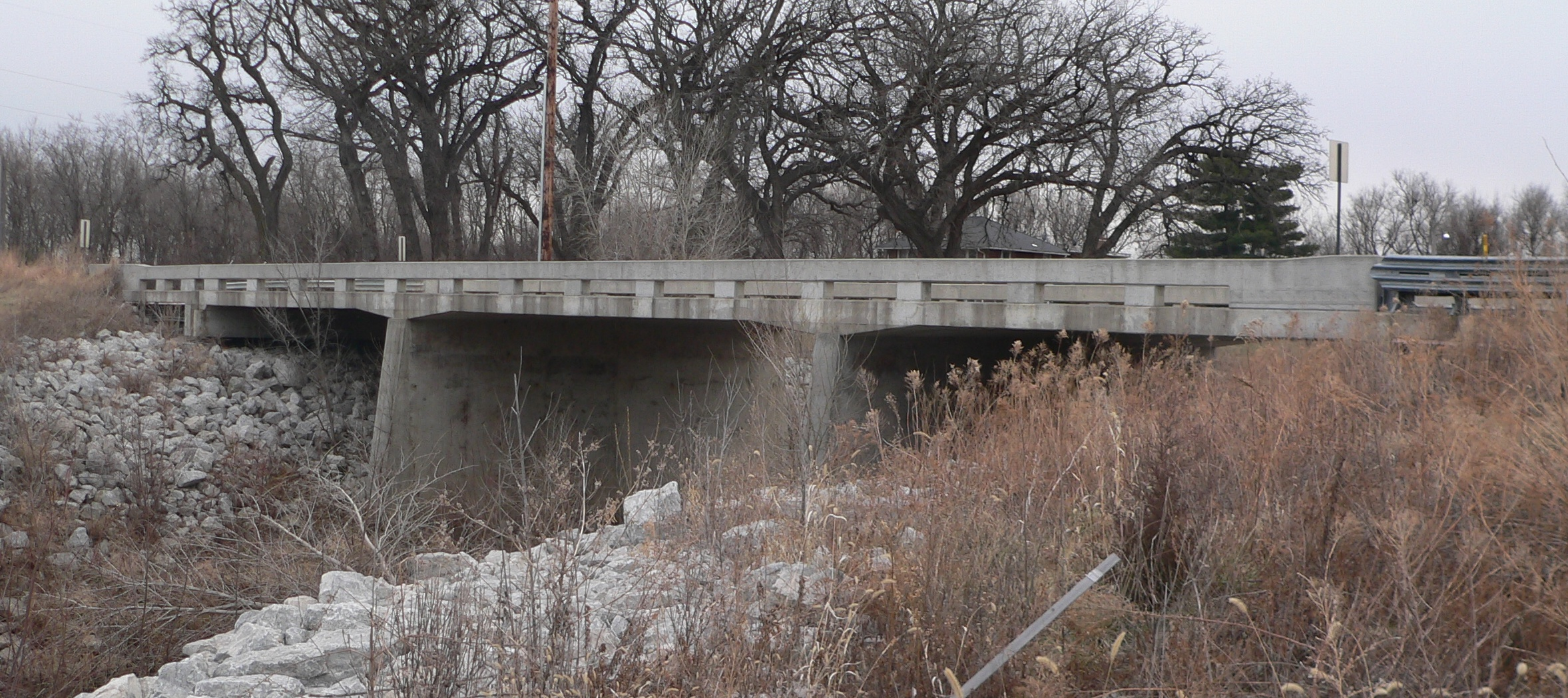 Bridge in Lincoln Nebraska, carrying Pioneer's Boulevard across Beal Slough; seen from the southwest (downstream).